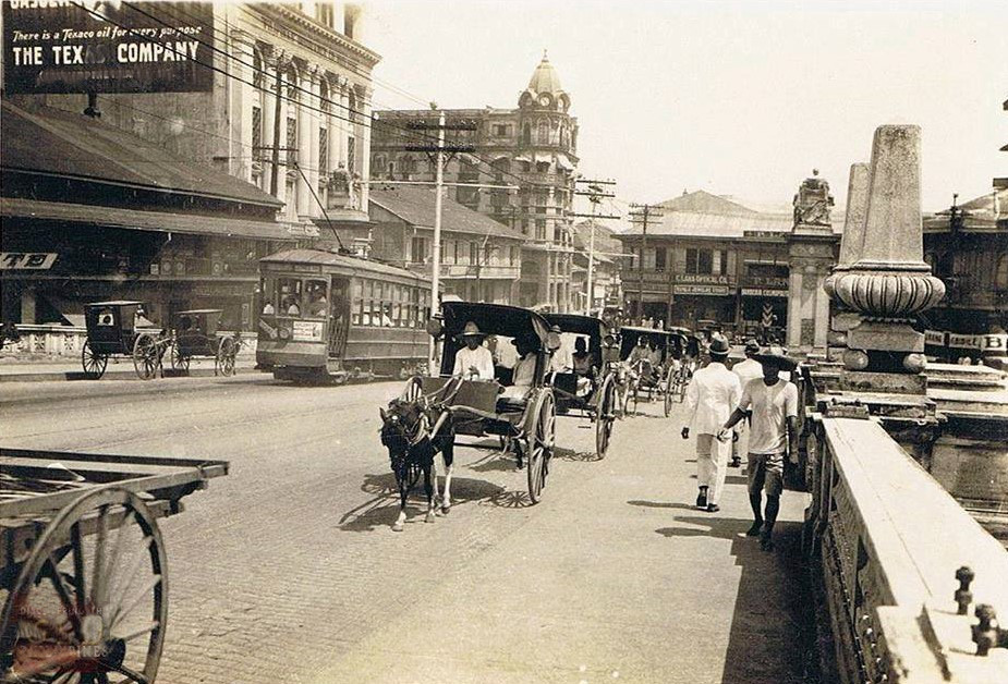 View of Binondo, Manila street from Jones bridge